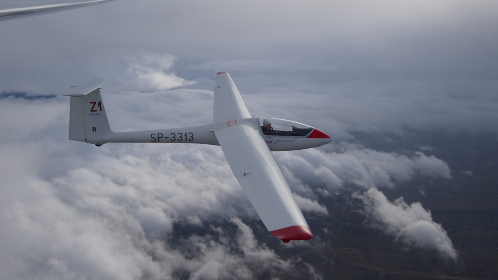 Glider SZD-51 Junior over Bielsko-Biała